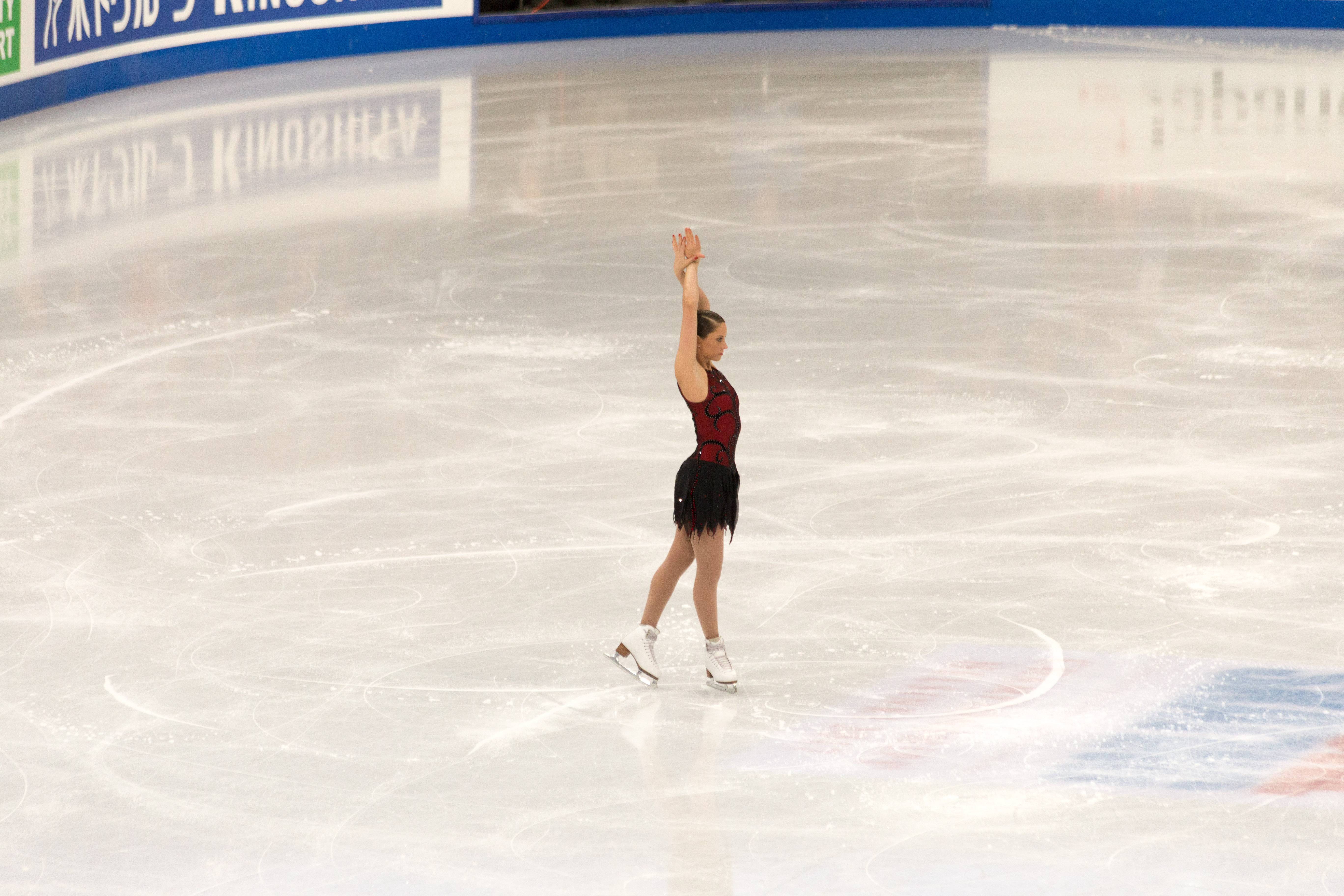 Natasha McKay (GBR) holds the opening pose for her short program at the 2017 World Figure Skating Championships